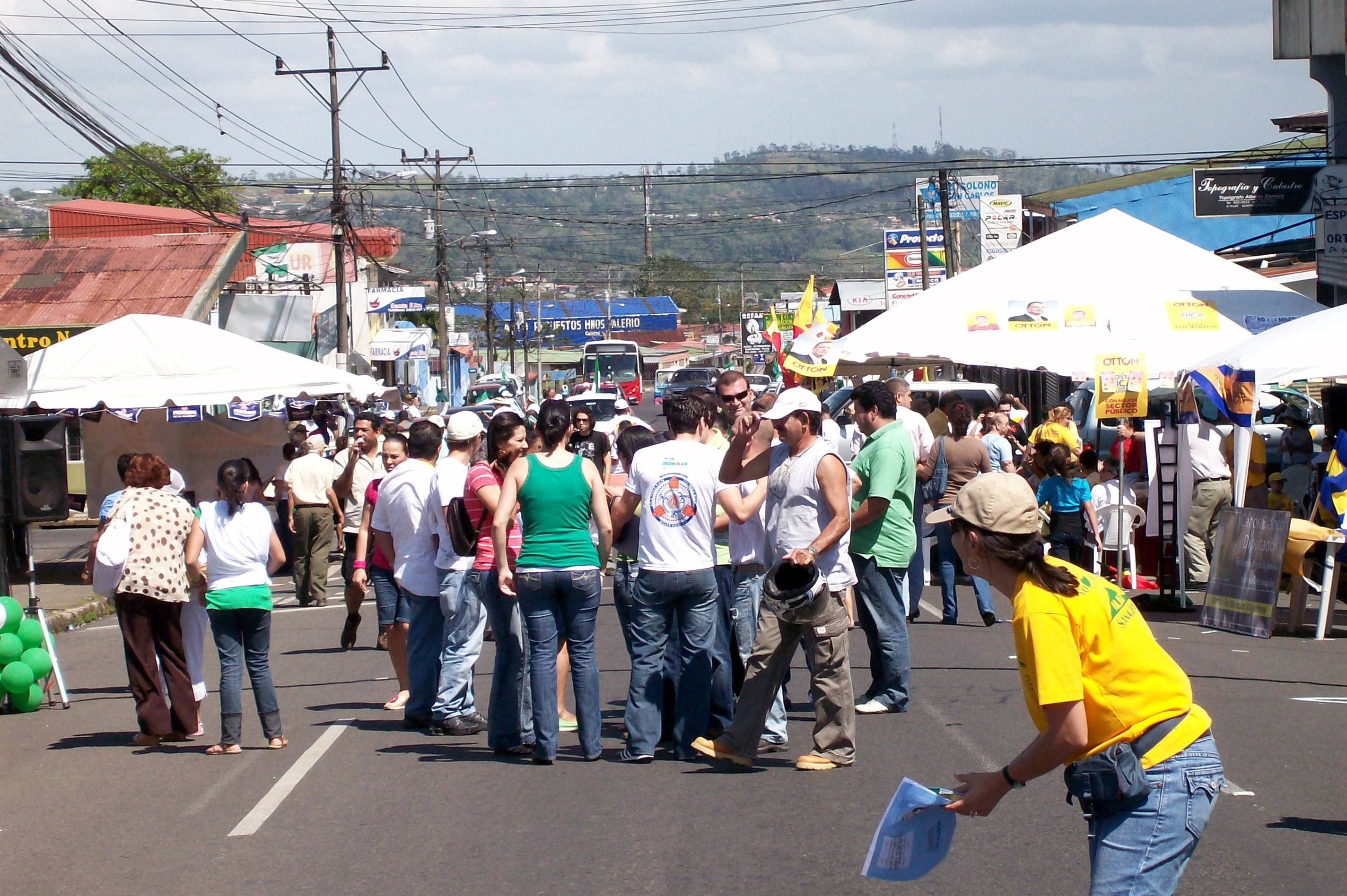 Voters at Quesada during Costa Rican general election, 2010.